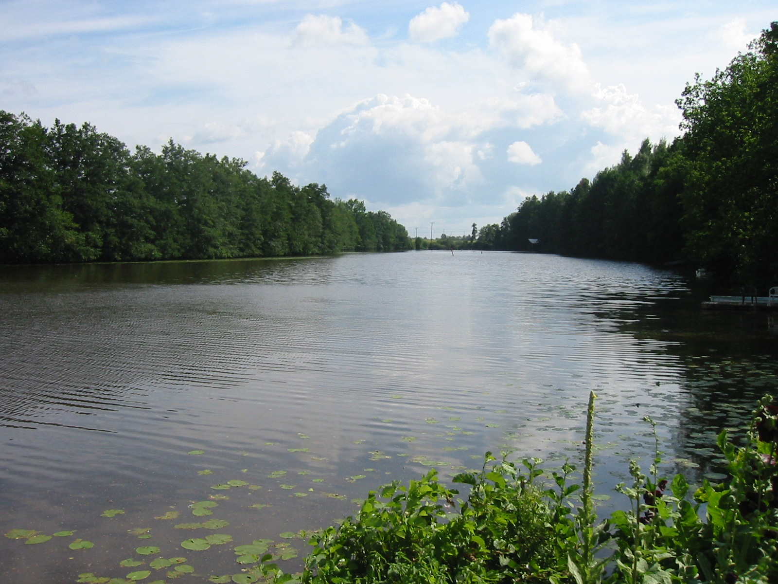 Kolbäcksån at Sörstafors. View south